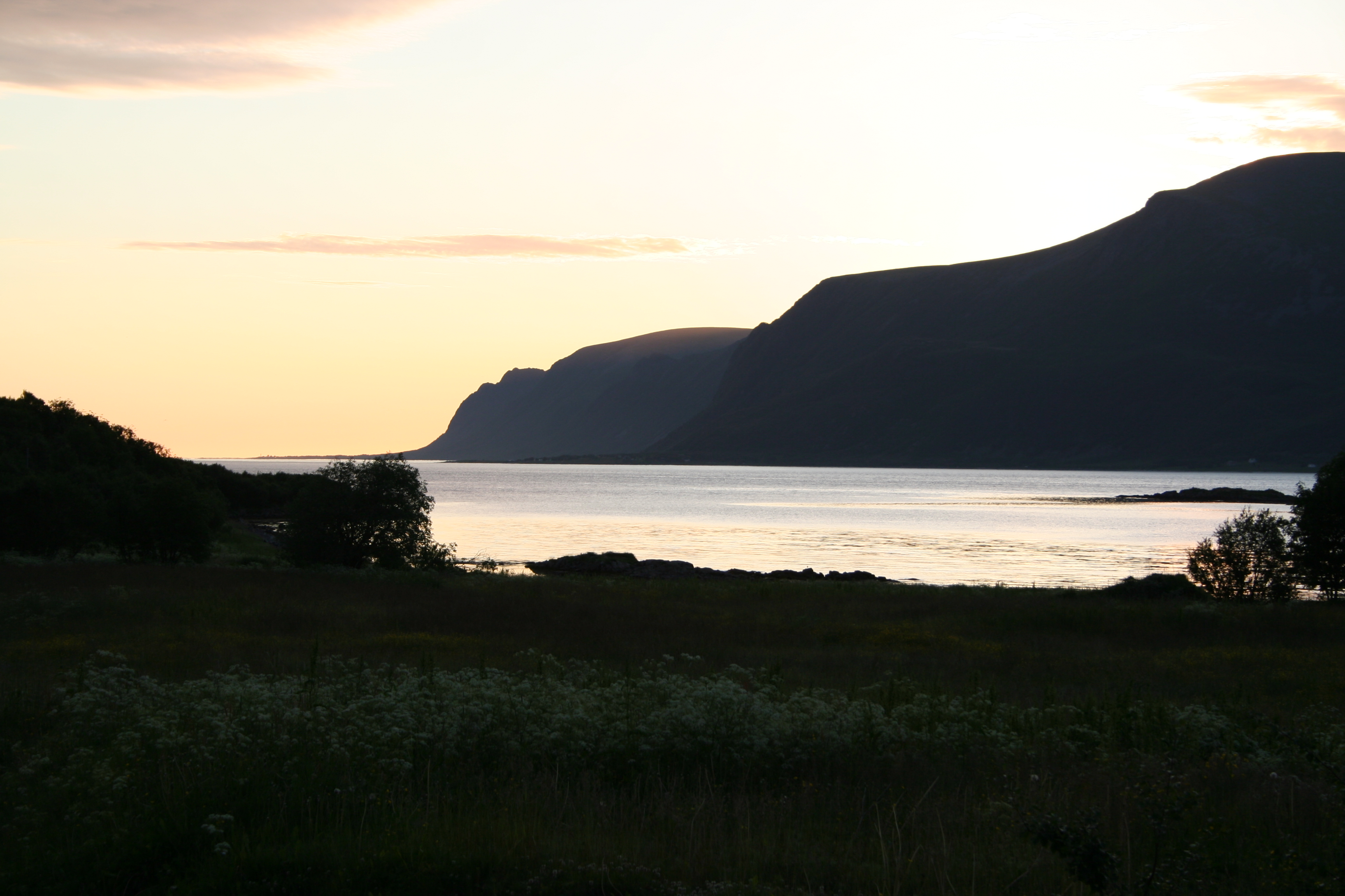 Midnight sun in Gavlfjorden, Norway, taken on 10 July 2006. This picture was taken by me.